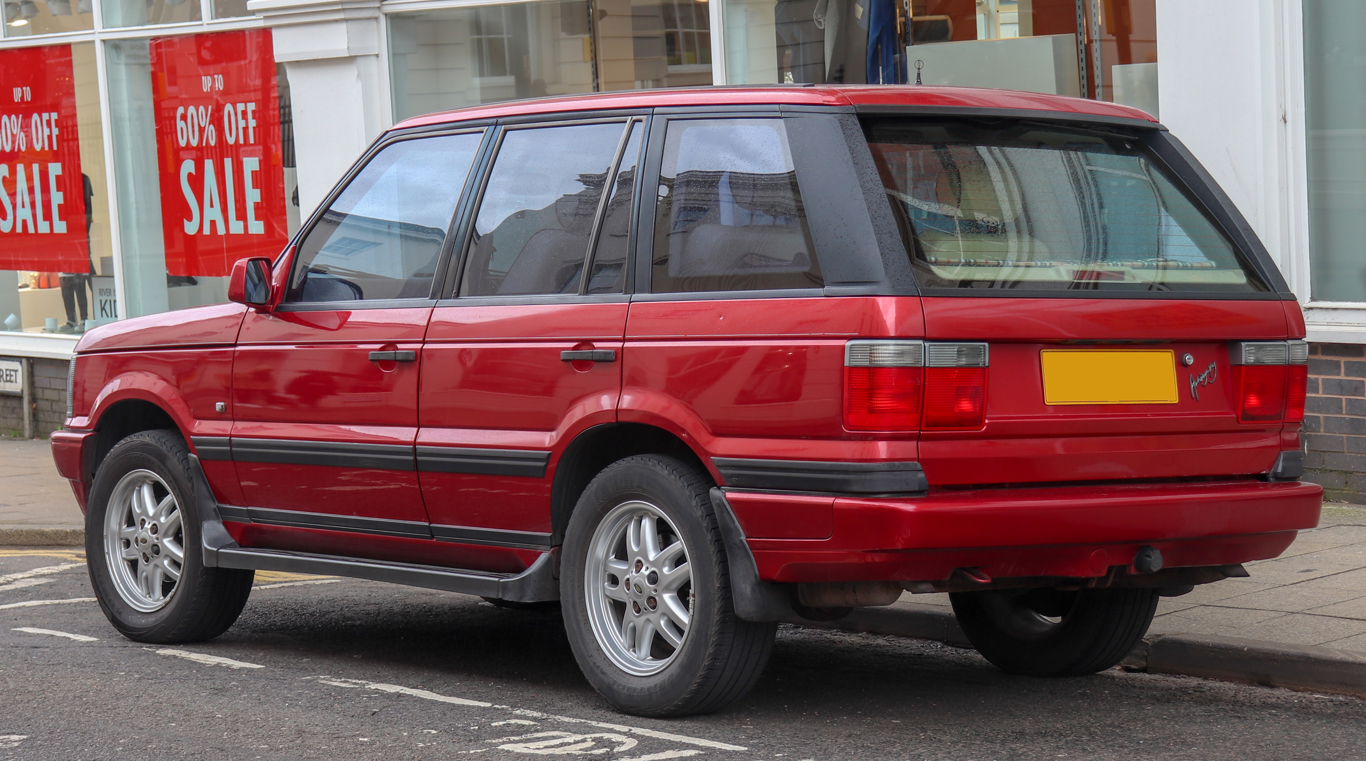 1998 Land Rover Range Rover Limited Edition Autobiography 4.6 Rear Taken in Leamington Spa